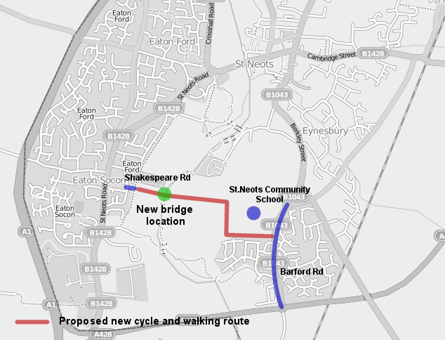 The proposed route of the St Neots (Southern) Foot and Cycle path and new bridge location; overlaid on OpenStreetMap data.